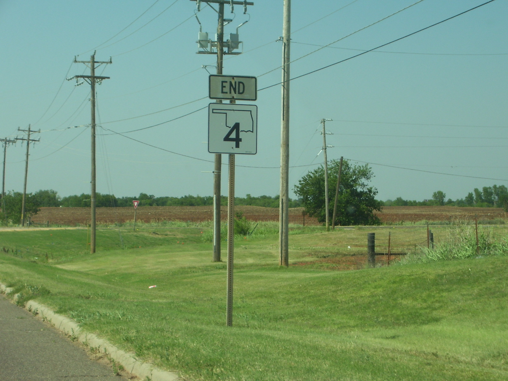 Signage at the north end of central Oklahoma's SH-4.